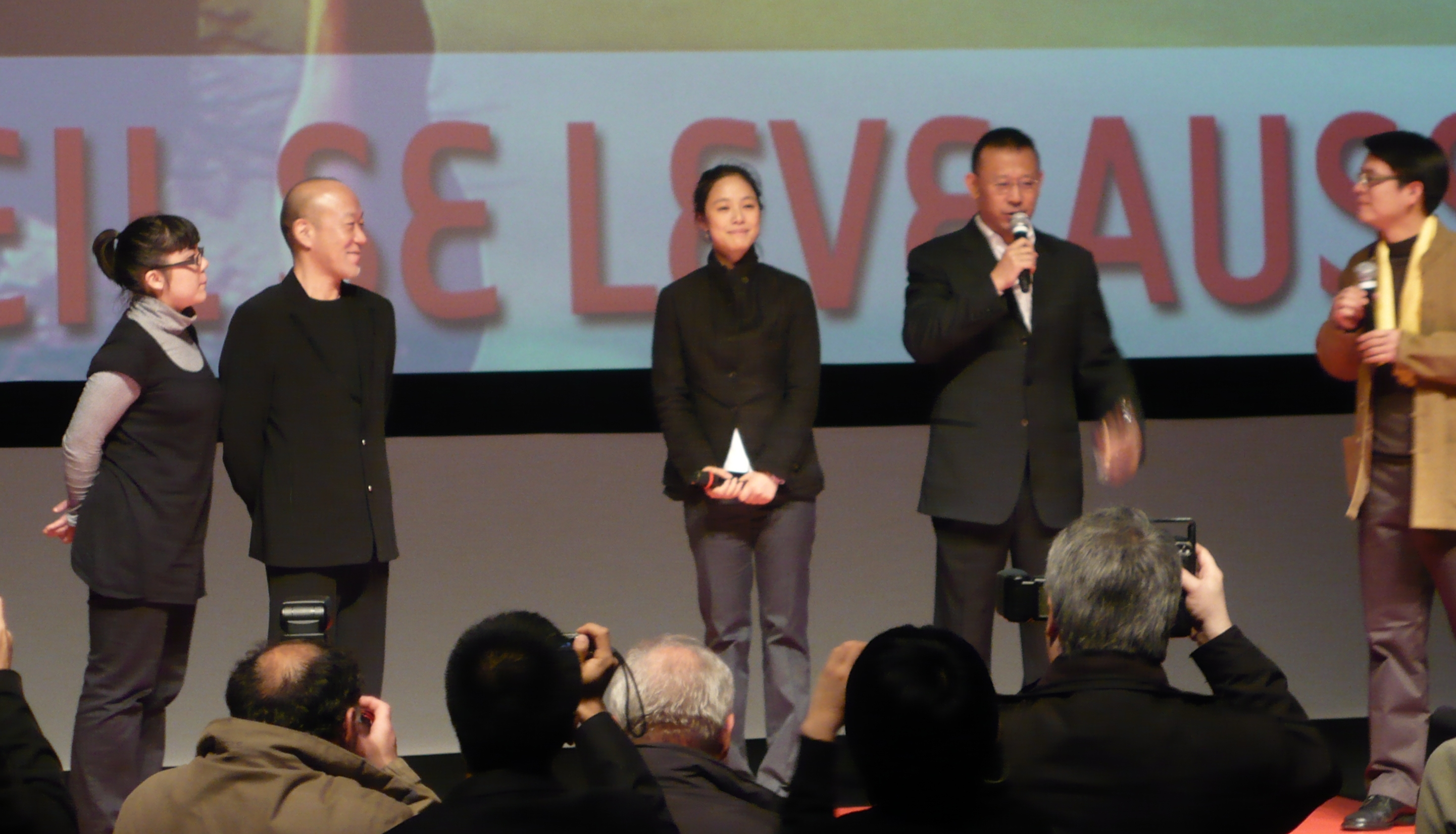 The_Sun_Also_Rises（太阳照常升起）.Music Joe_Hisaishin(久石_譲), Actress.Zhou_Yun_(周韵) & Director .Jiang_Wen_(姜文) in Festival du Film Asiatique.